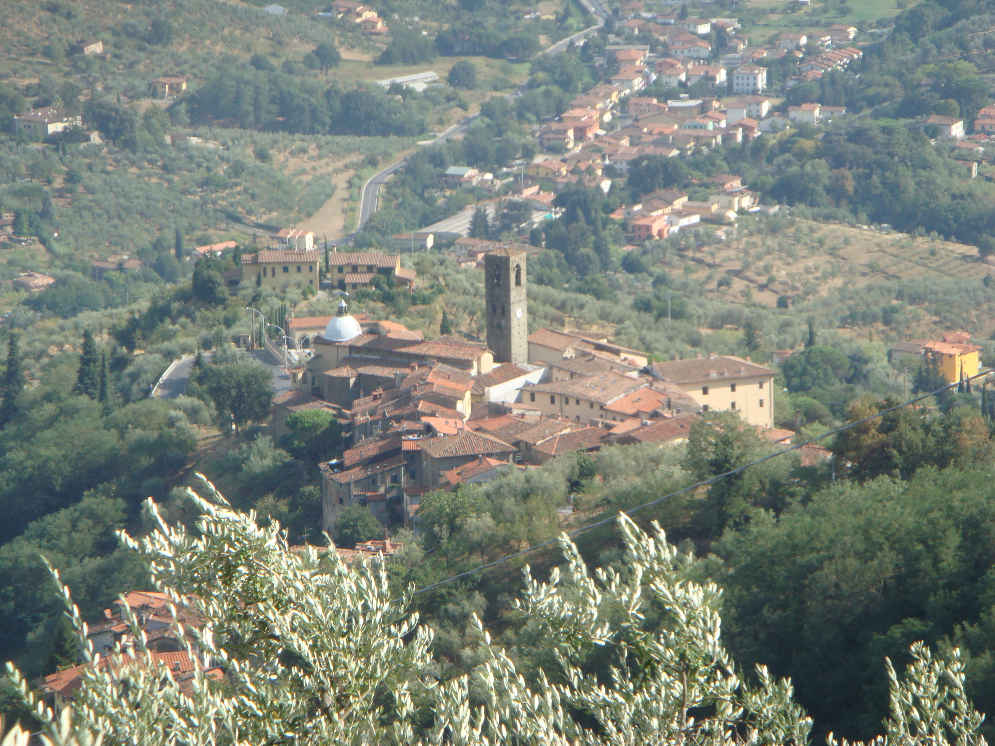 Panorama of Massa taken from Cozzile